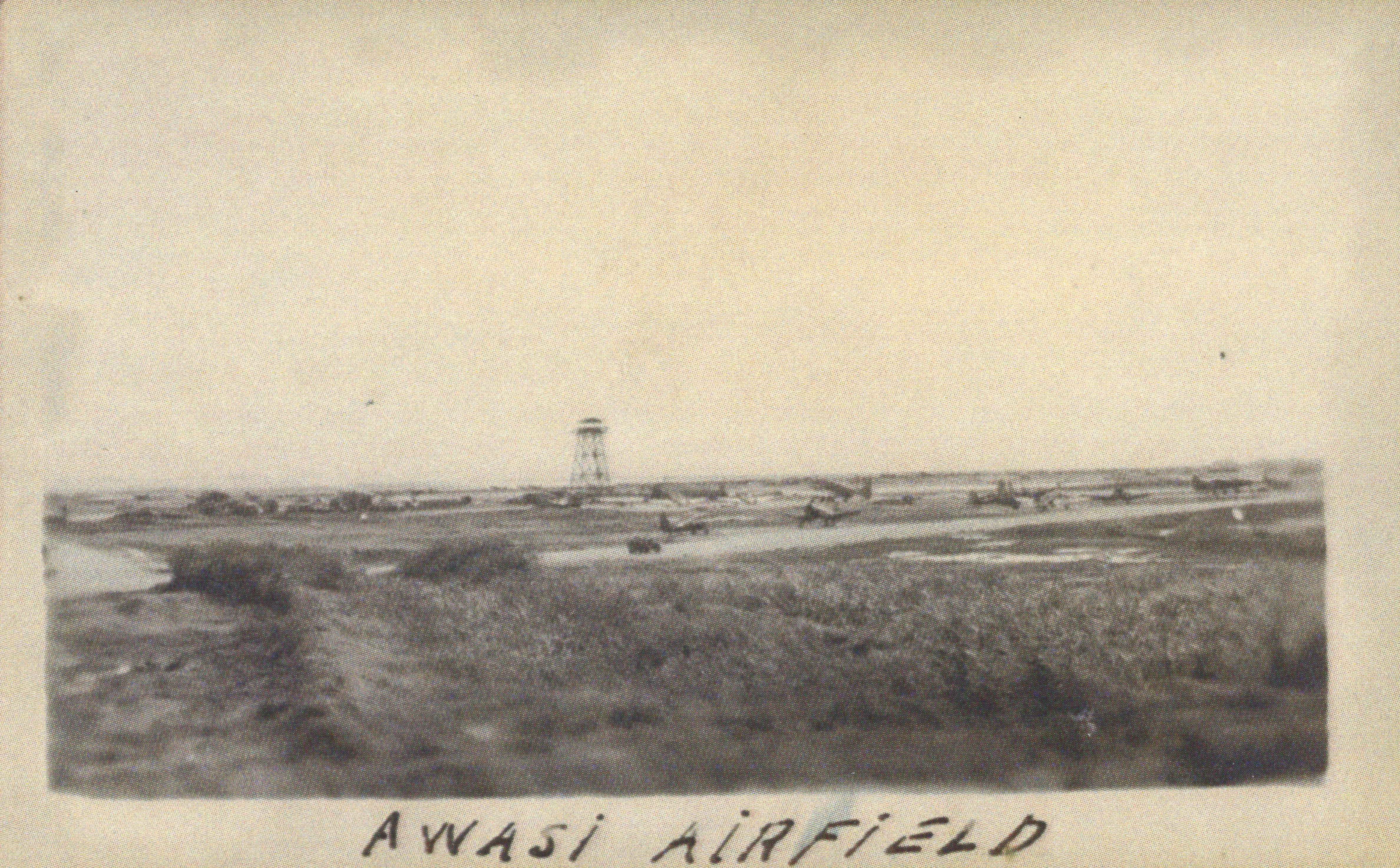 Photograph of Awase Airfield taken by Michael Lawler during the Battle of Okinawa. Lawler was a United States Marine with Air Warning Squadron 8 (AWS-8) during the battle. USMC F-4U Corsairs can be seen on the airfield.